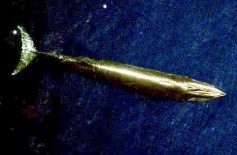 U.S. National Marine Fisheries Service photo by Wayne Hoggard